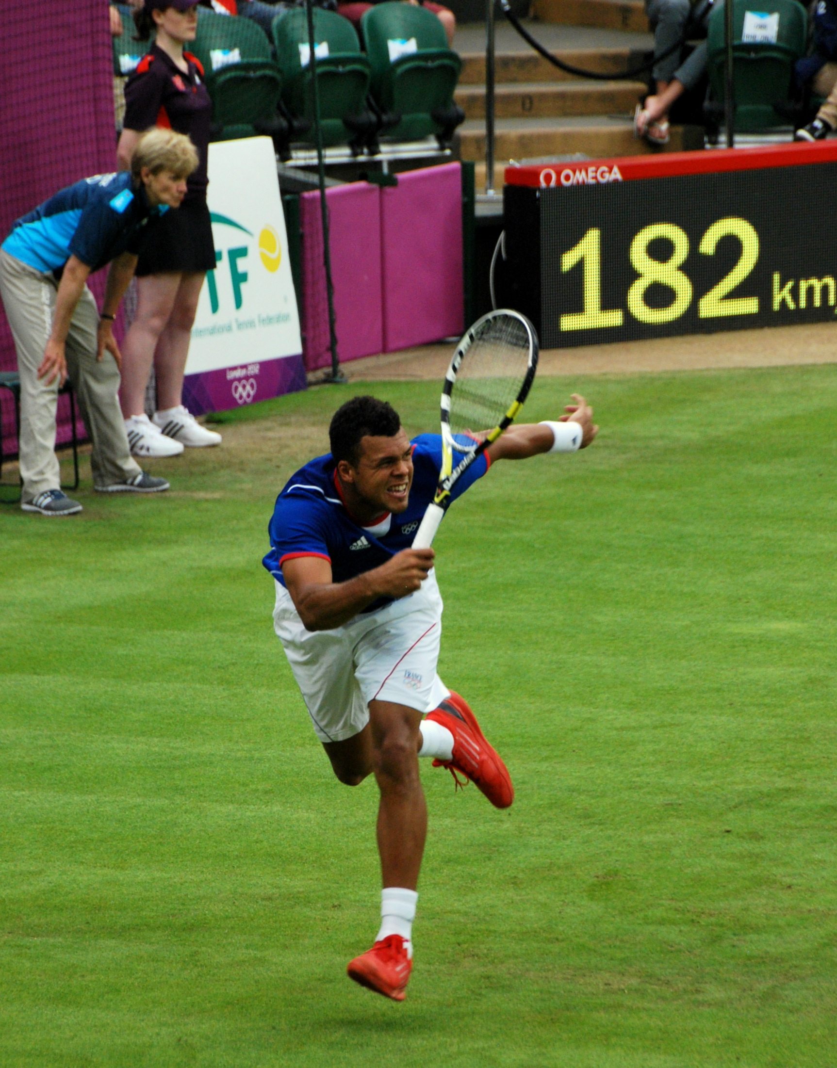 Tsonga against Thomaz Belluci, round of 64 of the Olympic Games in London 2012